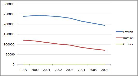 Number of students by language of instruction in Latvia. Evolution, 1999-2006. According to the Ministry of Education and Science.